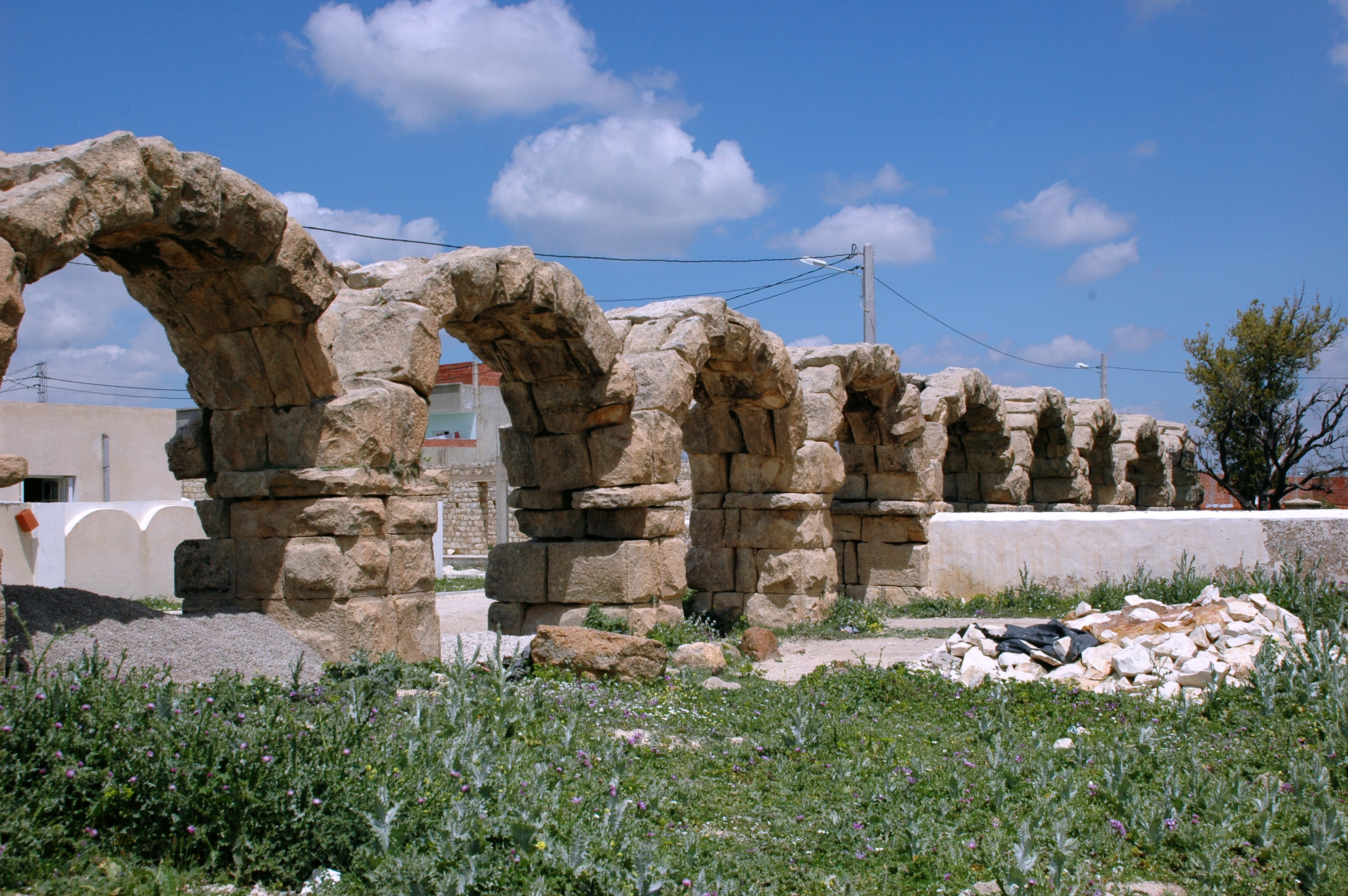 Aqueduct of Makthar, Tunisia